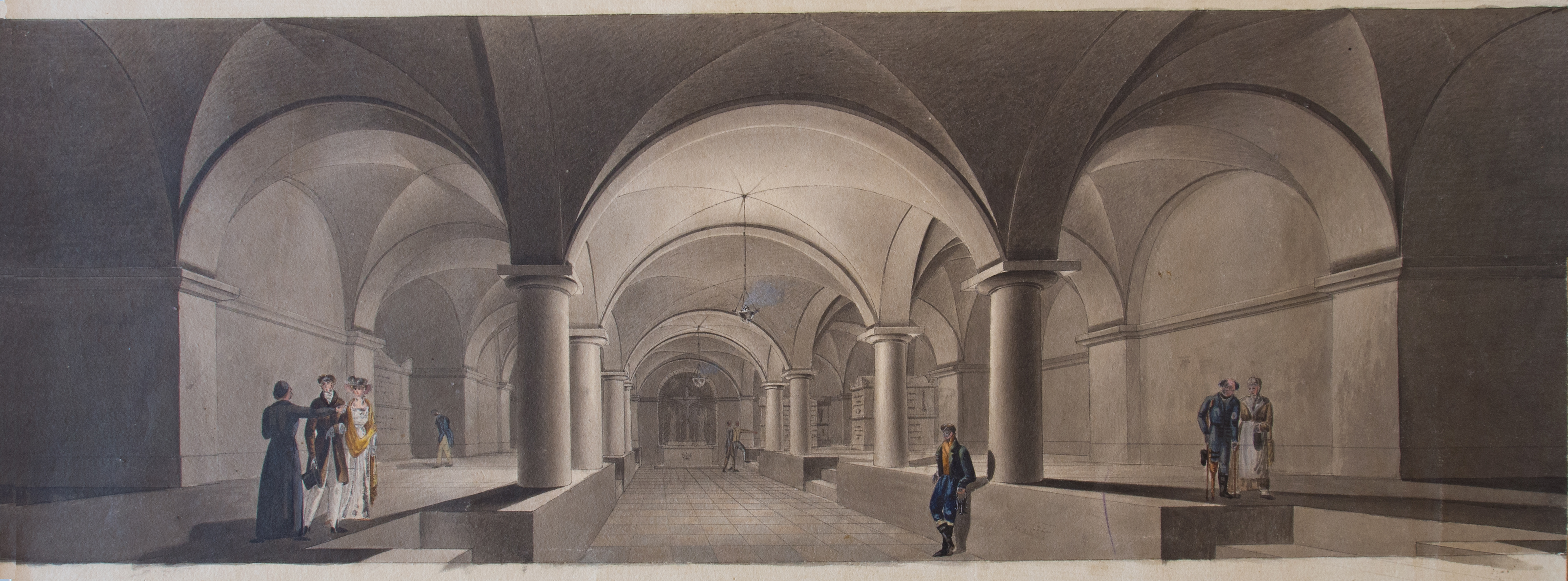 Lichtenštejnská hrobka ve Vranově po roce 1819